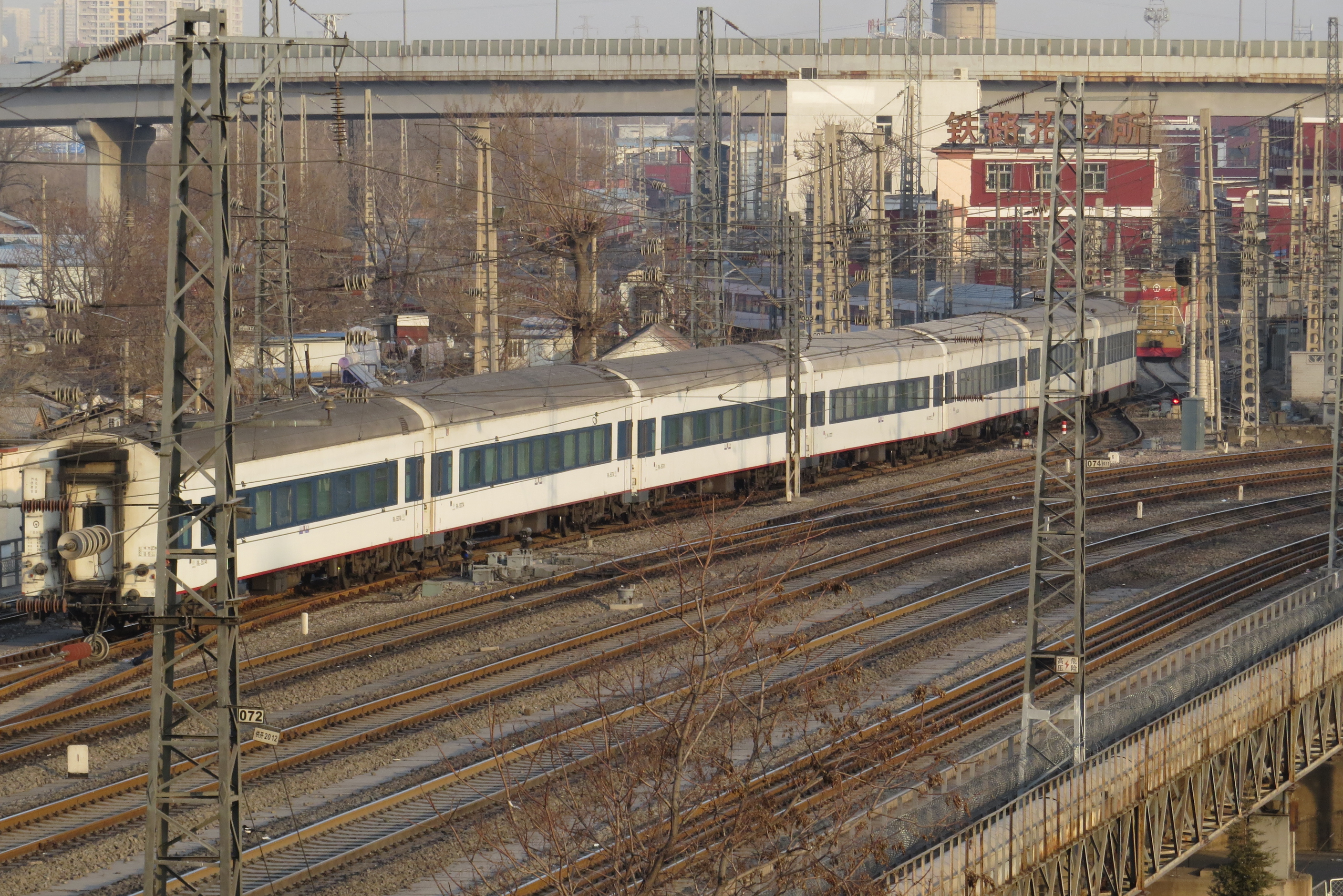 Several 25Ts with the locomotive on the back...mixed with BSPs and domestic 25Ts.